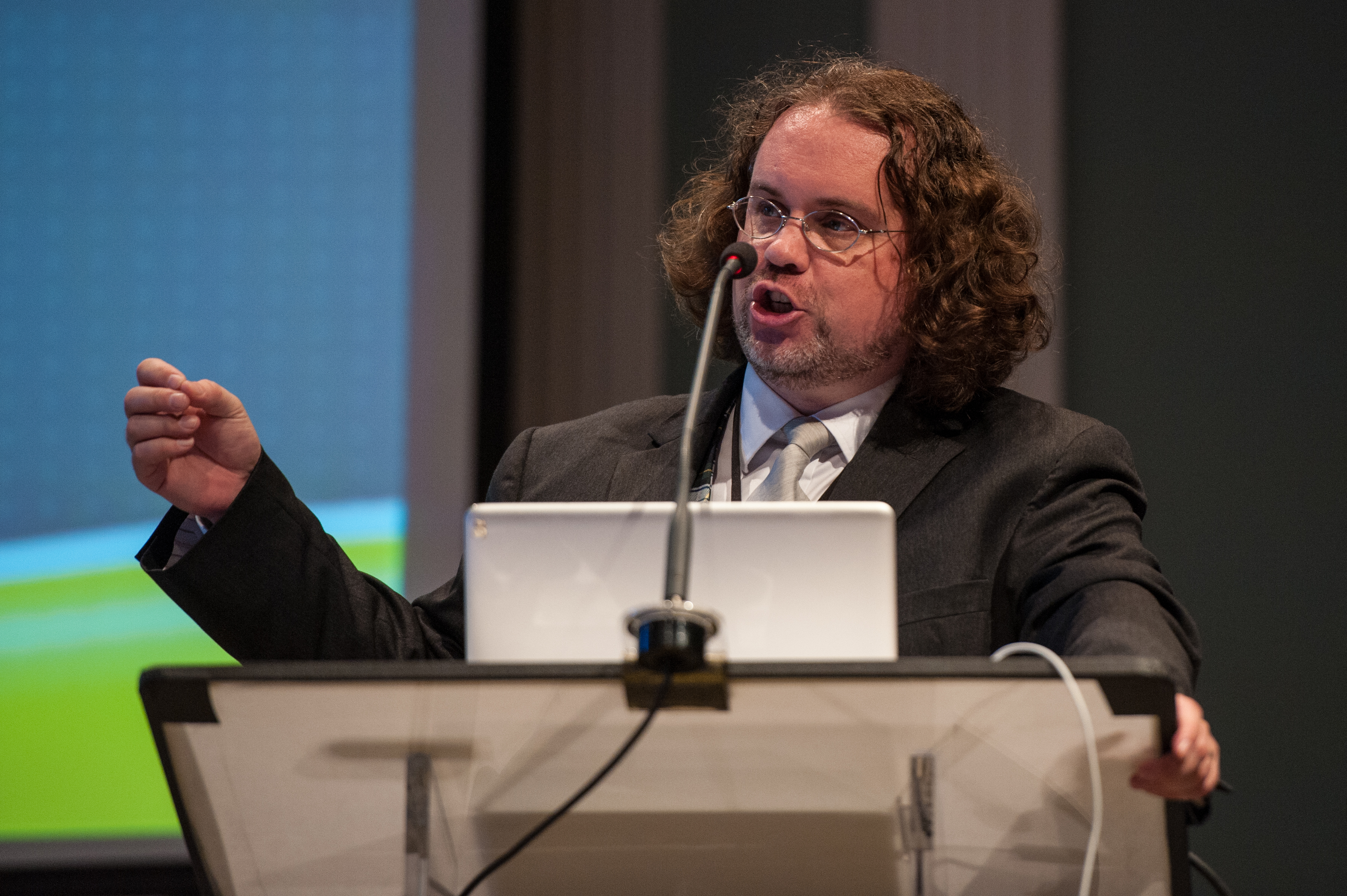 David Trim is speaking in 2014.